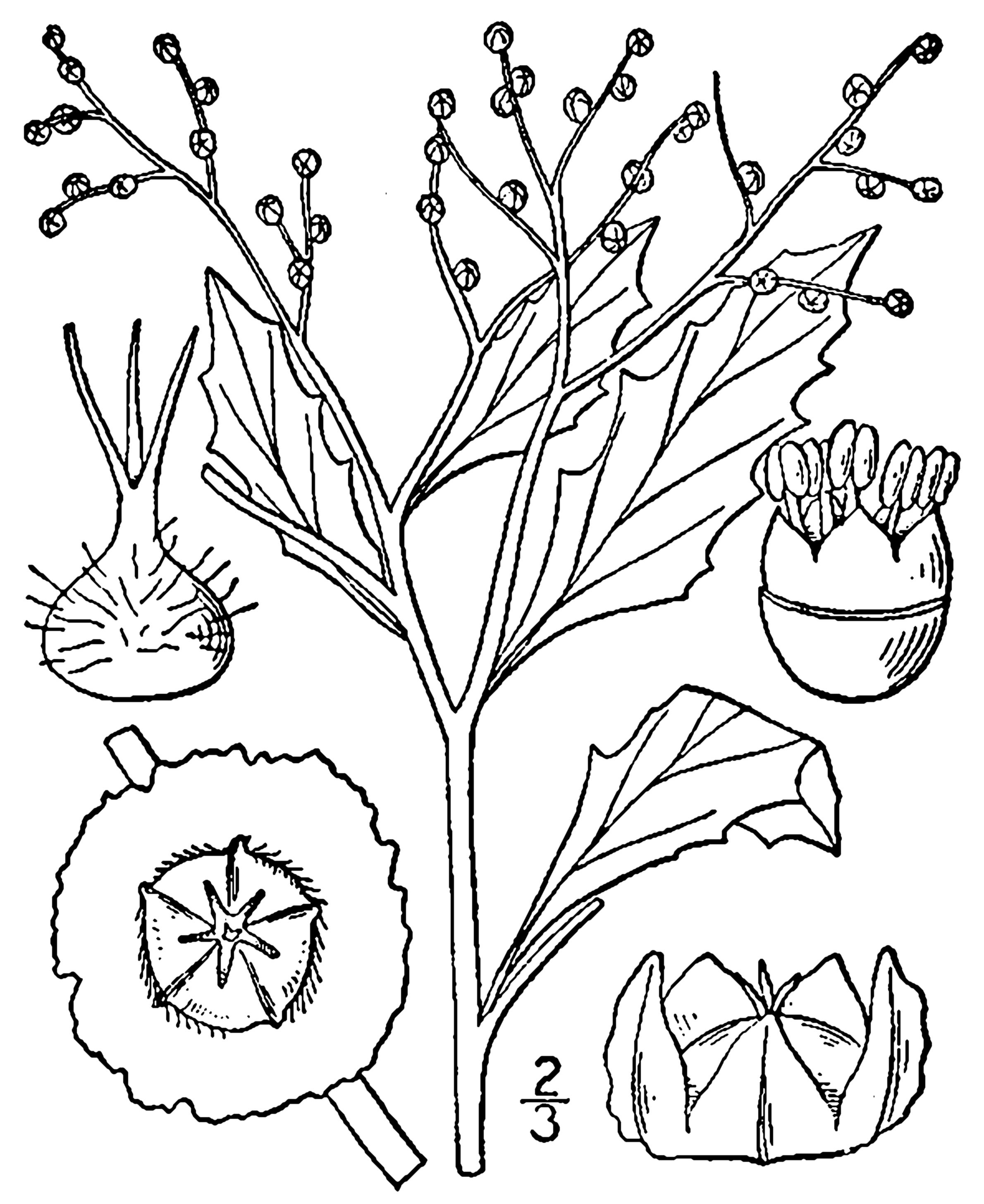 Cycloloma atriplicifolium (Spreng.) J.M. Coult. - winged pigweed